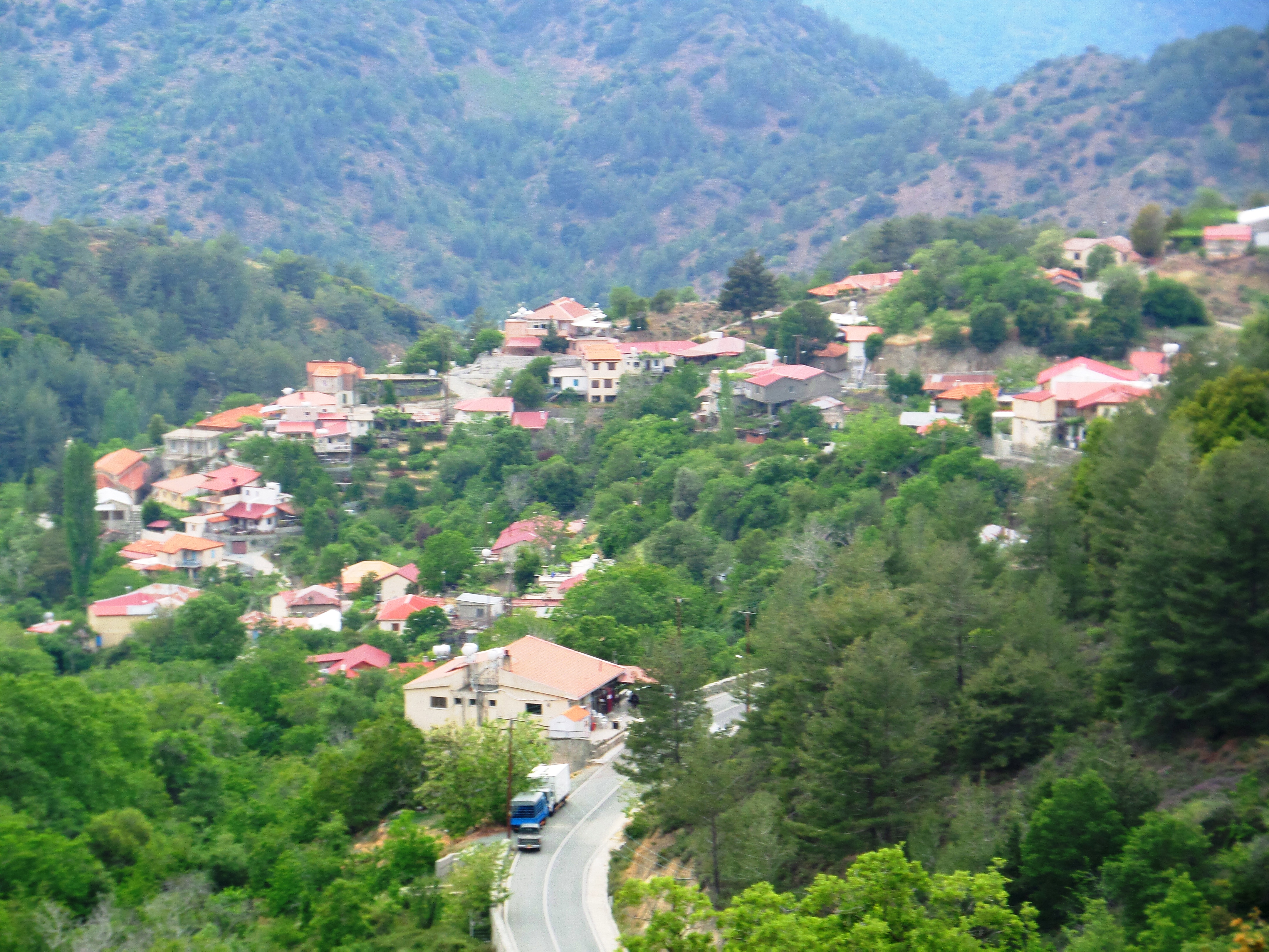 View of Lemithou.